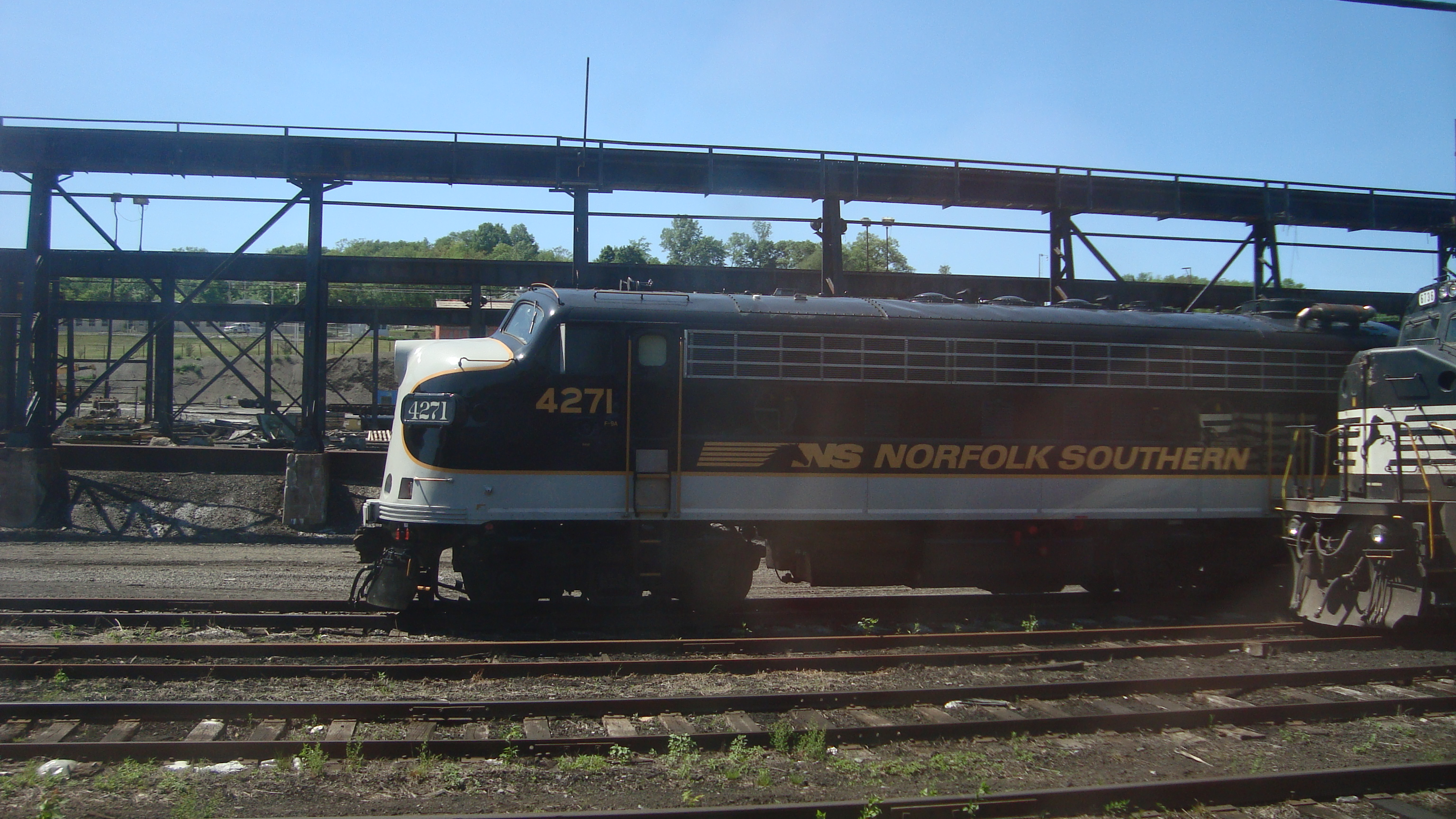 Juniata Locomotive Shop